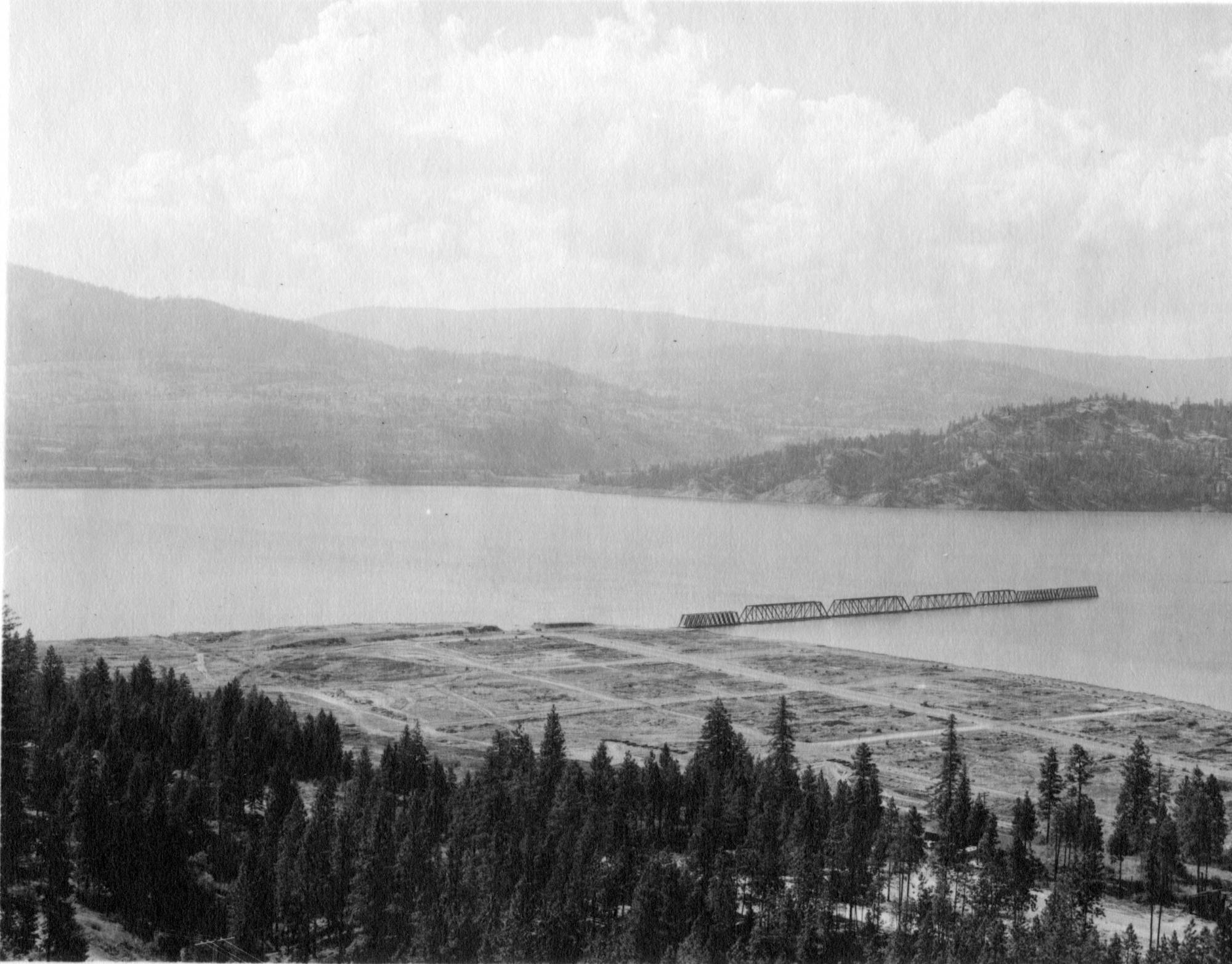 Columbia River reservoir. The old town site of Marcus in the foreground, with the abandoned Great Northern Railroad bridge at the right. Water surface of the reservoir is at elevation 1252.5.